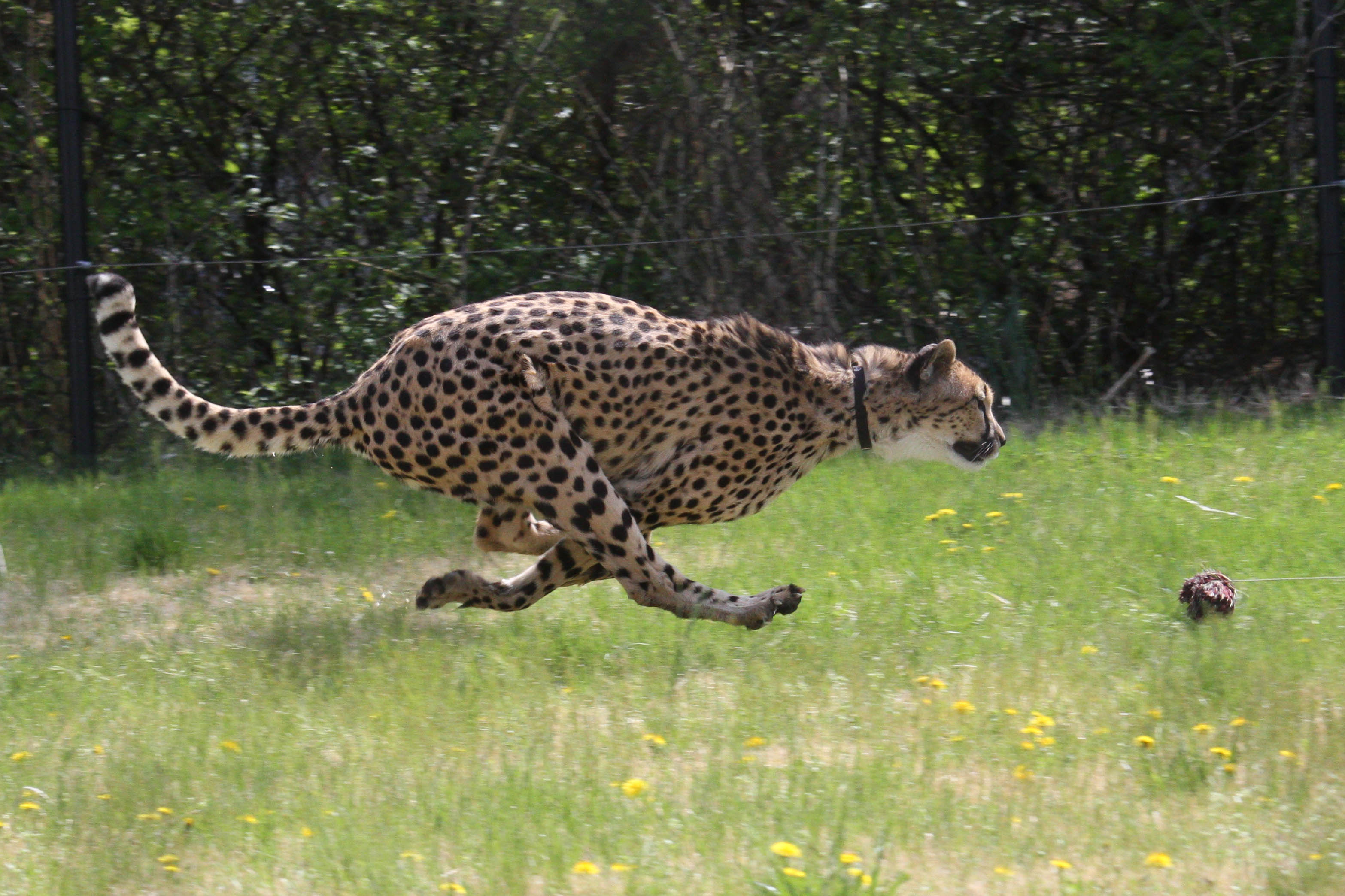 A cheetah, possibly named Nia, running at the Cincinnati Zoo. This photo was taken on April 21, 2013 using a Canon EOS 7D.